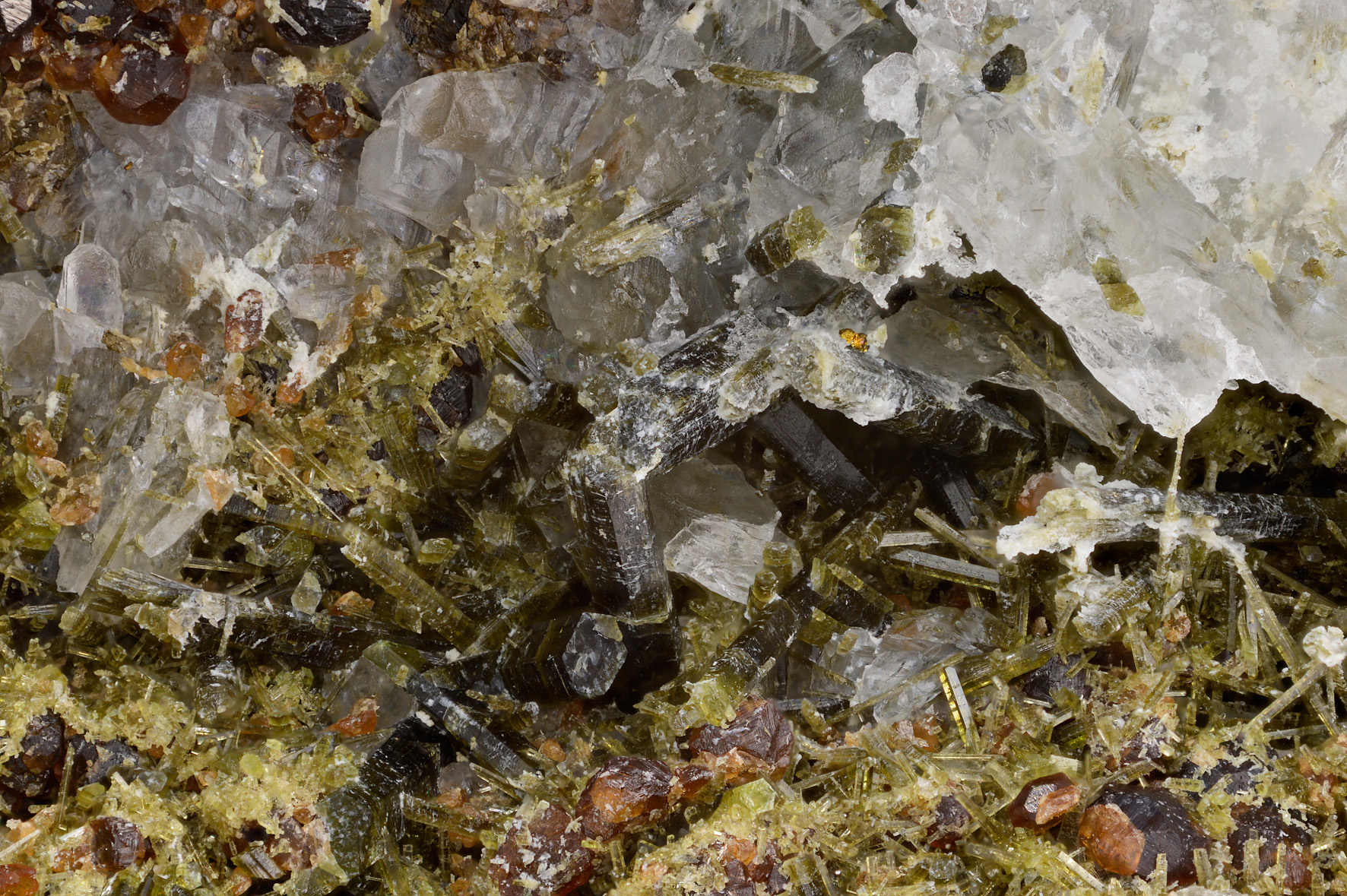 Epidot-xx, Adami 2-Skarn, Lavrion 10-2013, BB 15 mm Foto Schillhammer Stergiou collection